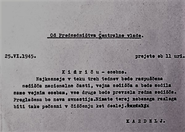 Edvard Kardelj naročil Kidriču pospešitev pobojev, še preden bi ujetniki lahko zaprosili za amnestijo.